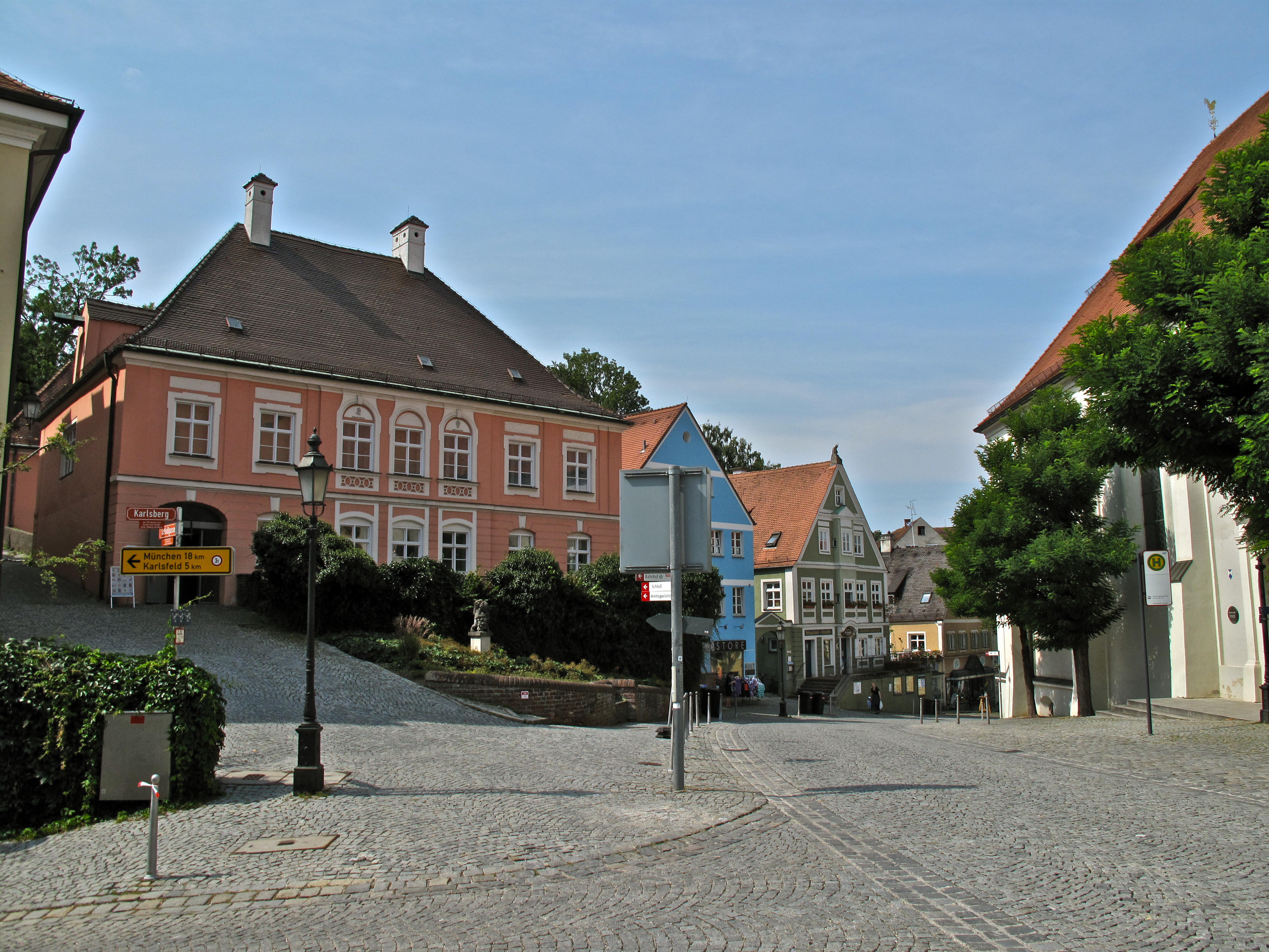 The Konrad-Adenauer-Straße in the historic part of Dachau, Bavaria/Germany.